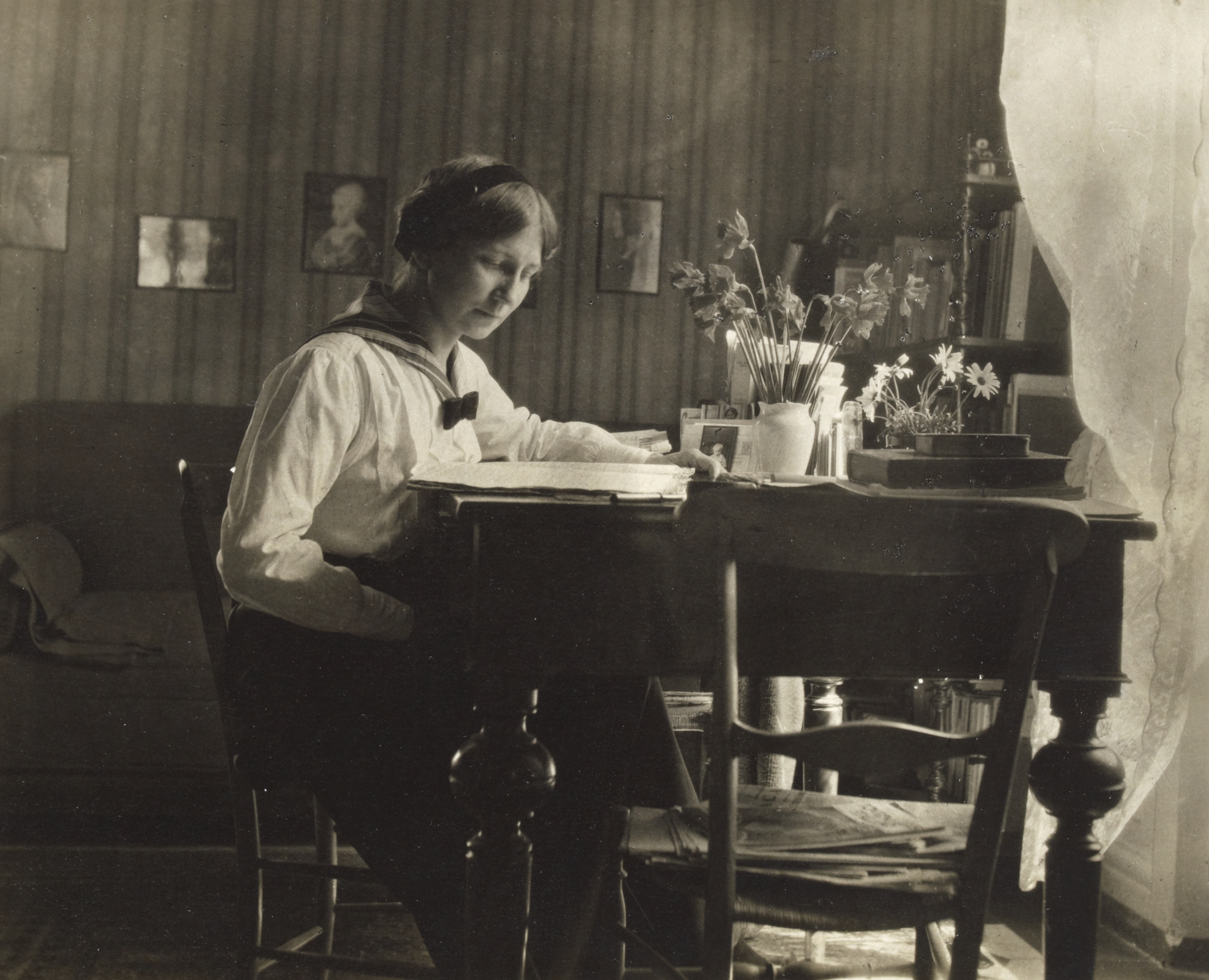 Photograph of the Finnish historian and diplomat Liisi Karttunen (1880–1957).